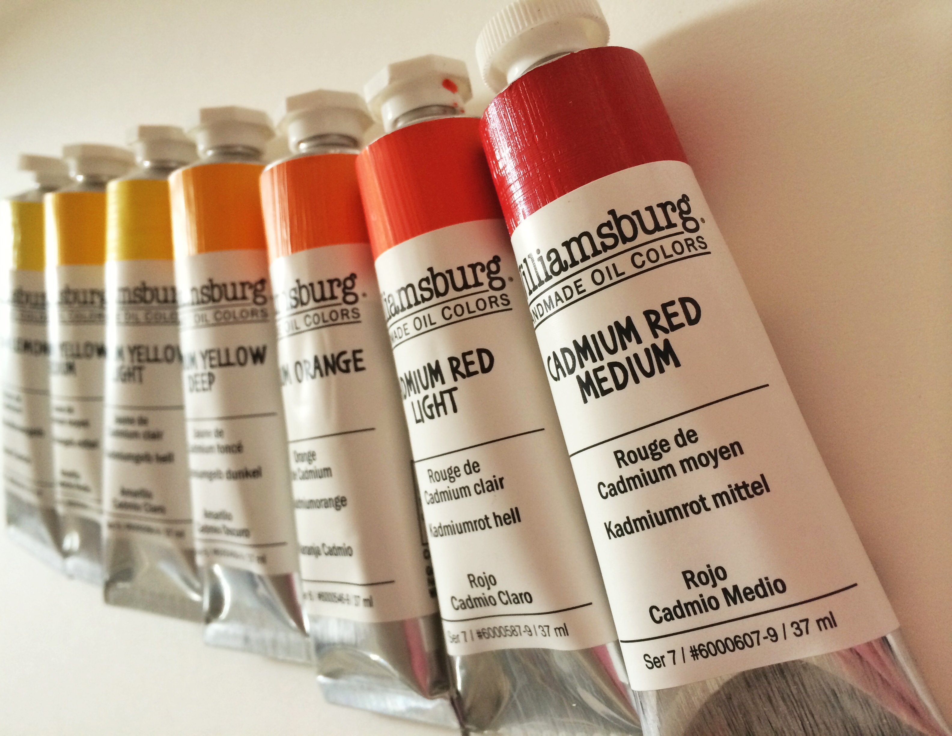 A selection of cadmium oil paints made by Williamsburg Handmade Oil Color.